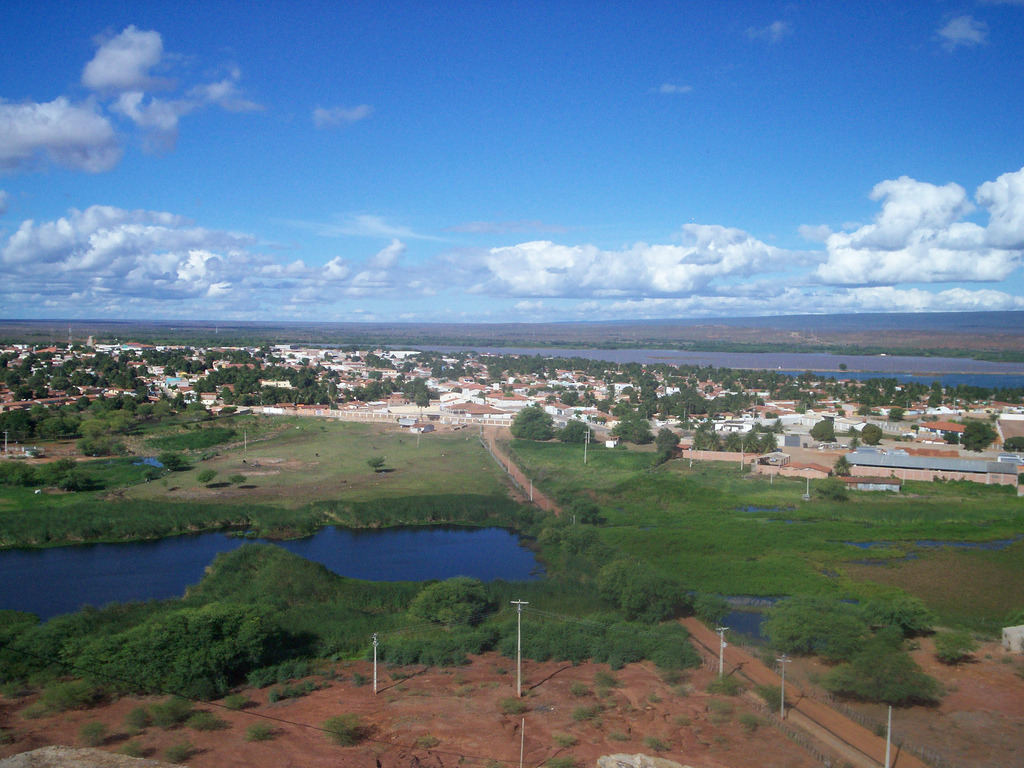 View of Petrolandia, Pernambuco - Brazil